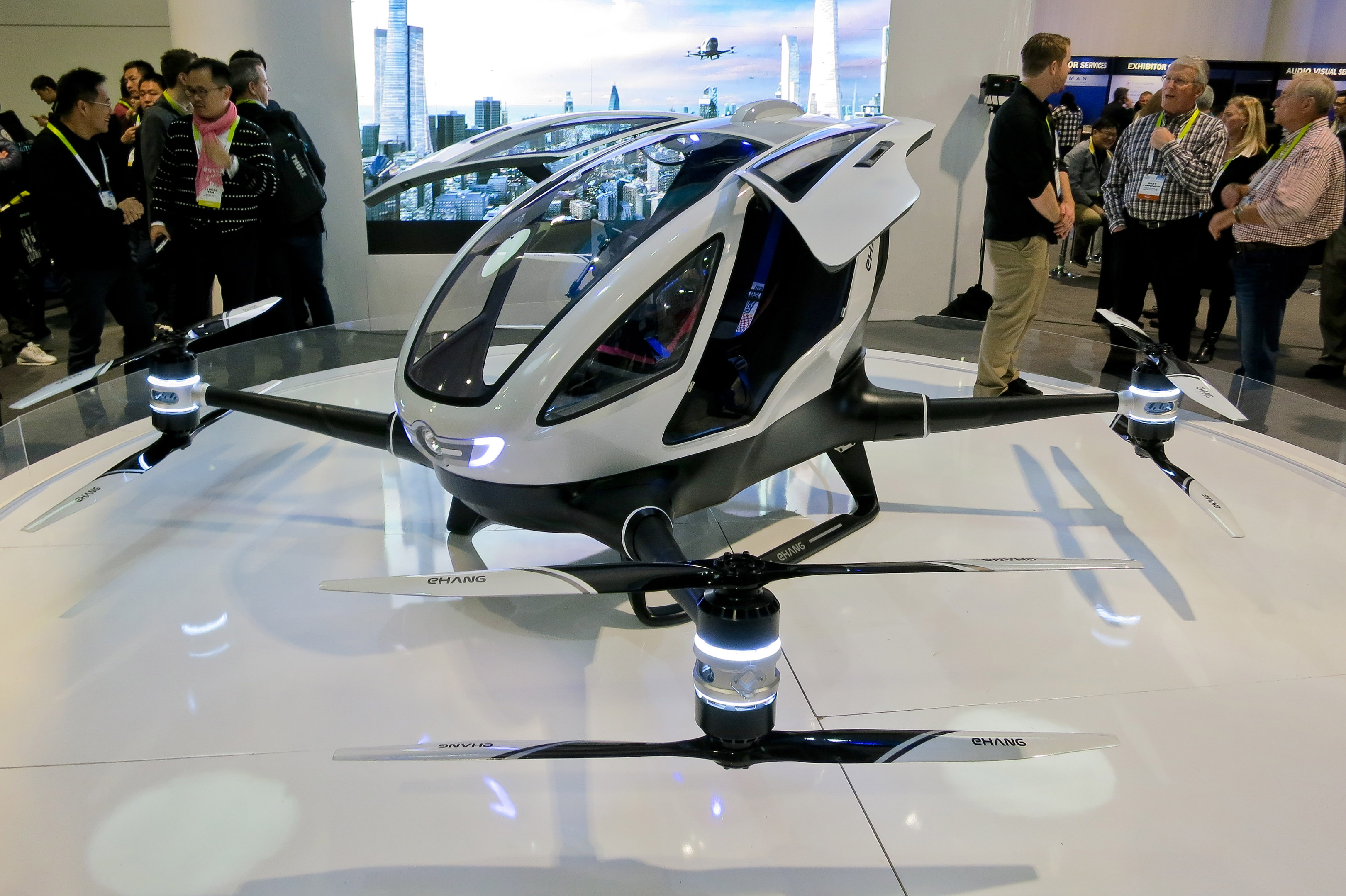 CES 2016: EHang 184 – the first electric passenger drone.